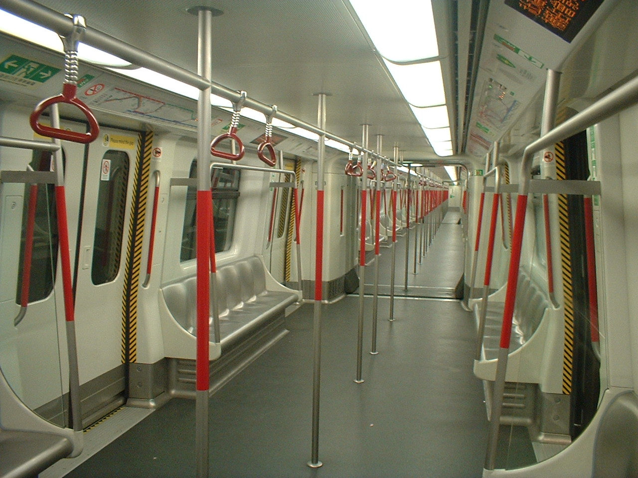 MTR Hong Kong, Interior of the MTR K-Stock, built jointly by Mitsubishi and ROTEM